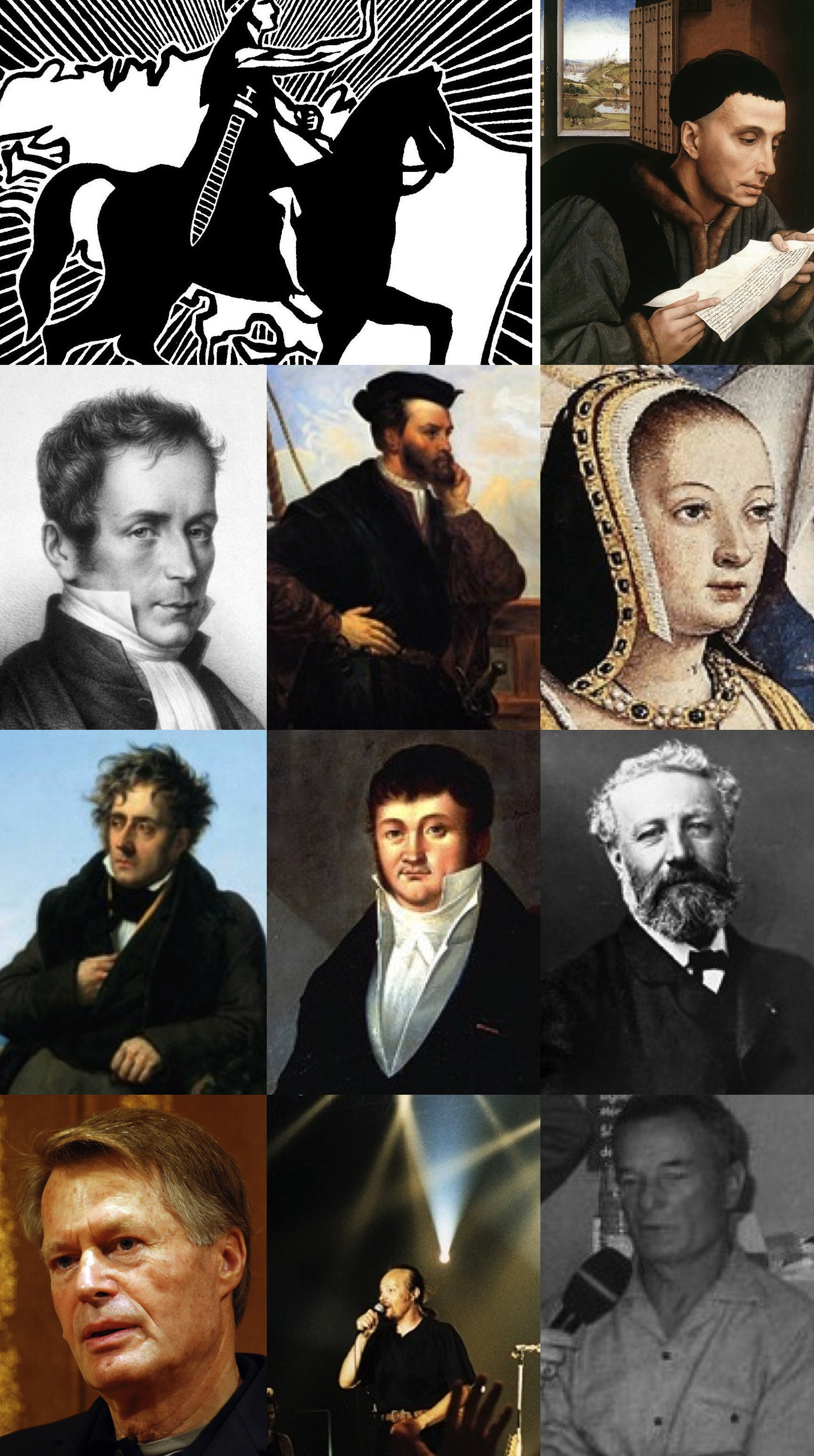 Compiled using